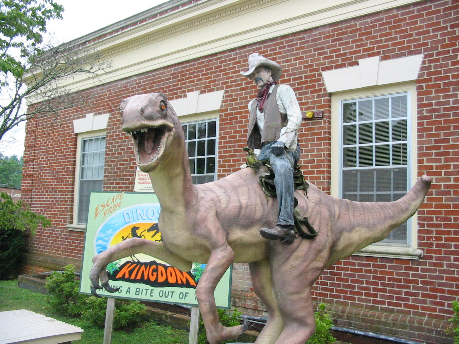 A taste of Dinosaur Kingdom at the gift shop Natural Bridge, VA July 20 2009